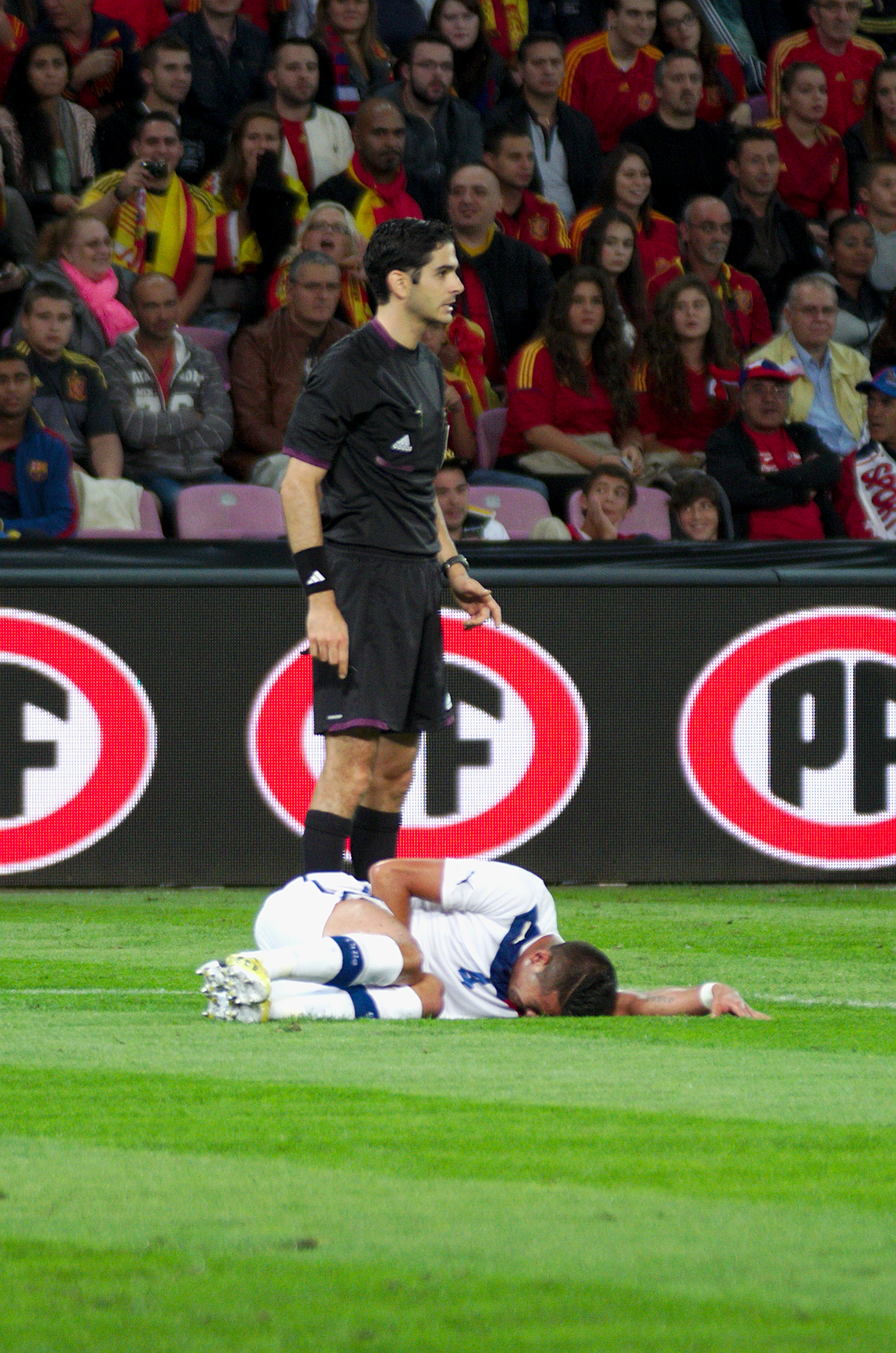 Spain - Chile - 10-09-2013 - Geneva - Adrien Jaccottet and Mauricio Isla